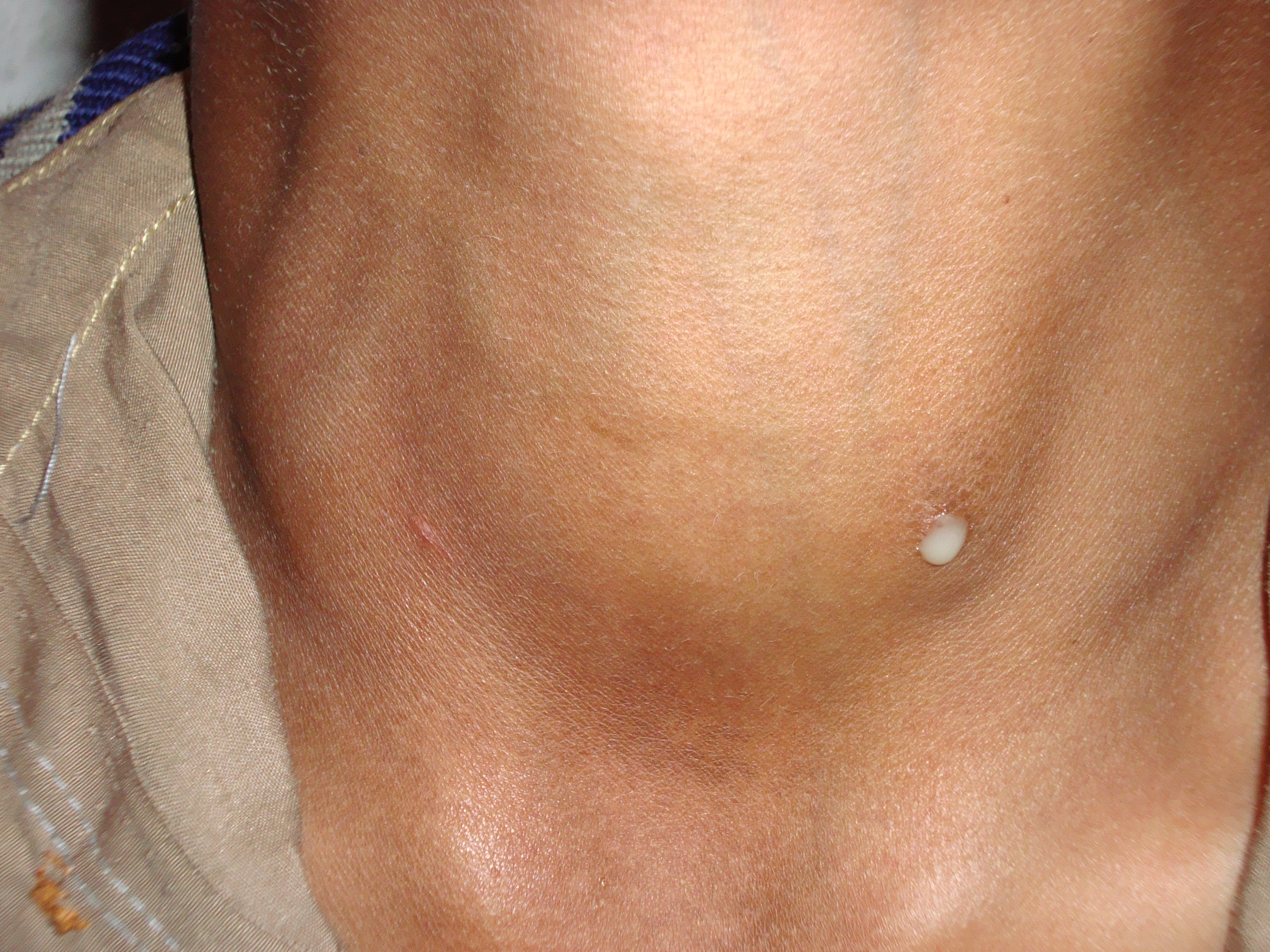 A small opening in front of the sternocleidomastoid muscle present since birth, getting infected and discharging pus now and then, responding to antibiotics.